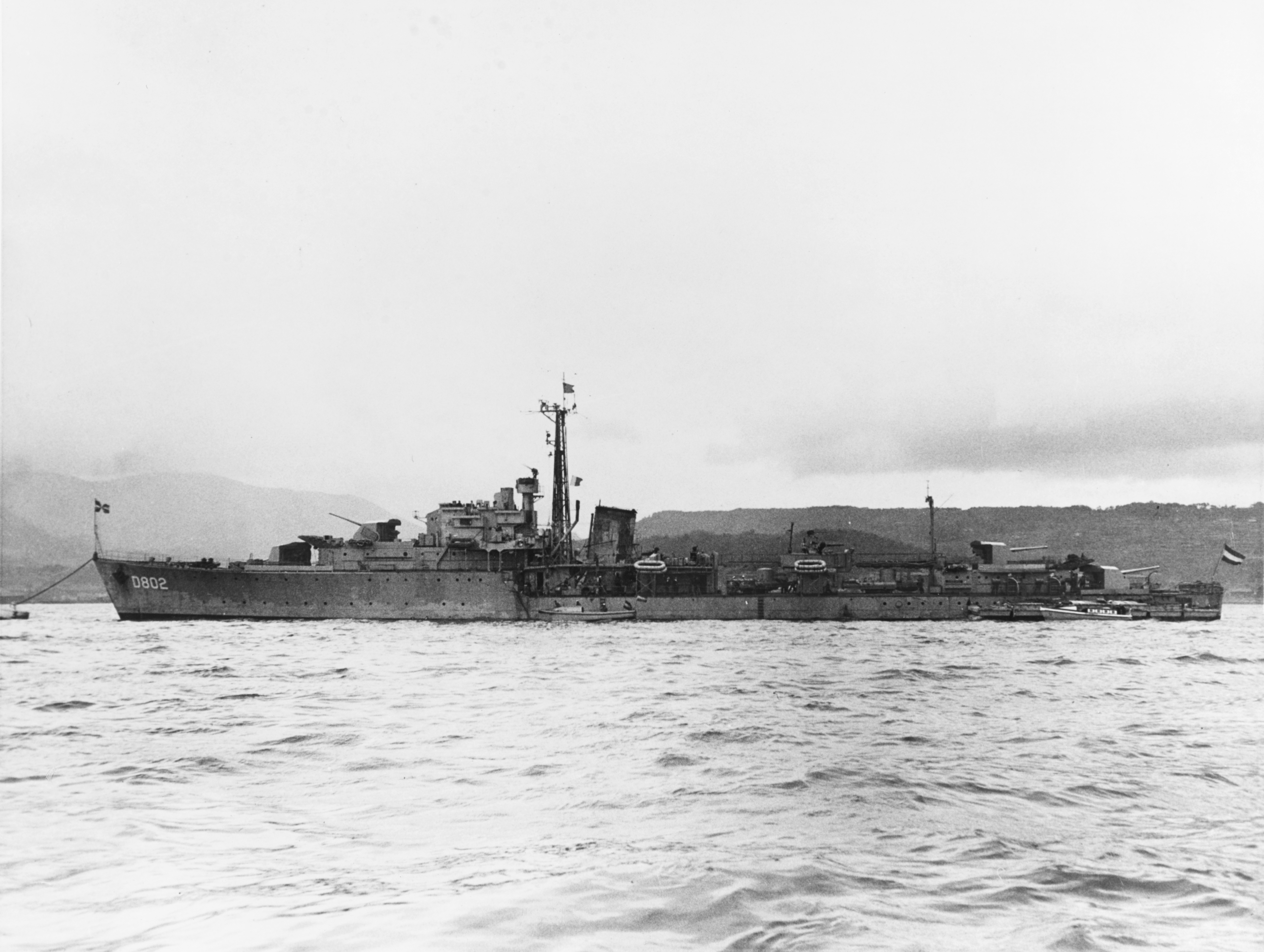 The Dutch destroyer Hr.Ms. Evertsen (D802) at Yokosuka, Japan, on 11 January 1951, after joining the United Nations Blockading and Escort Force for Korean War duty.